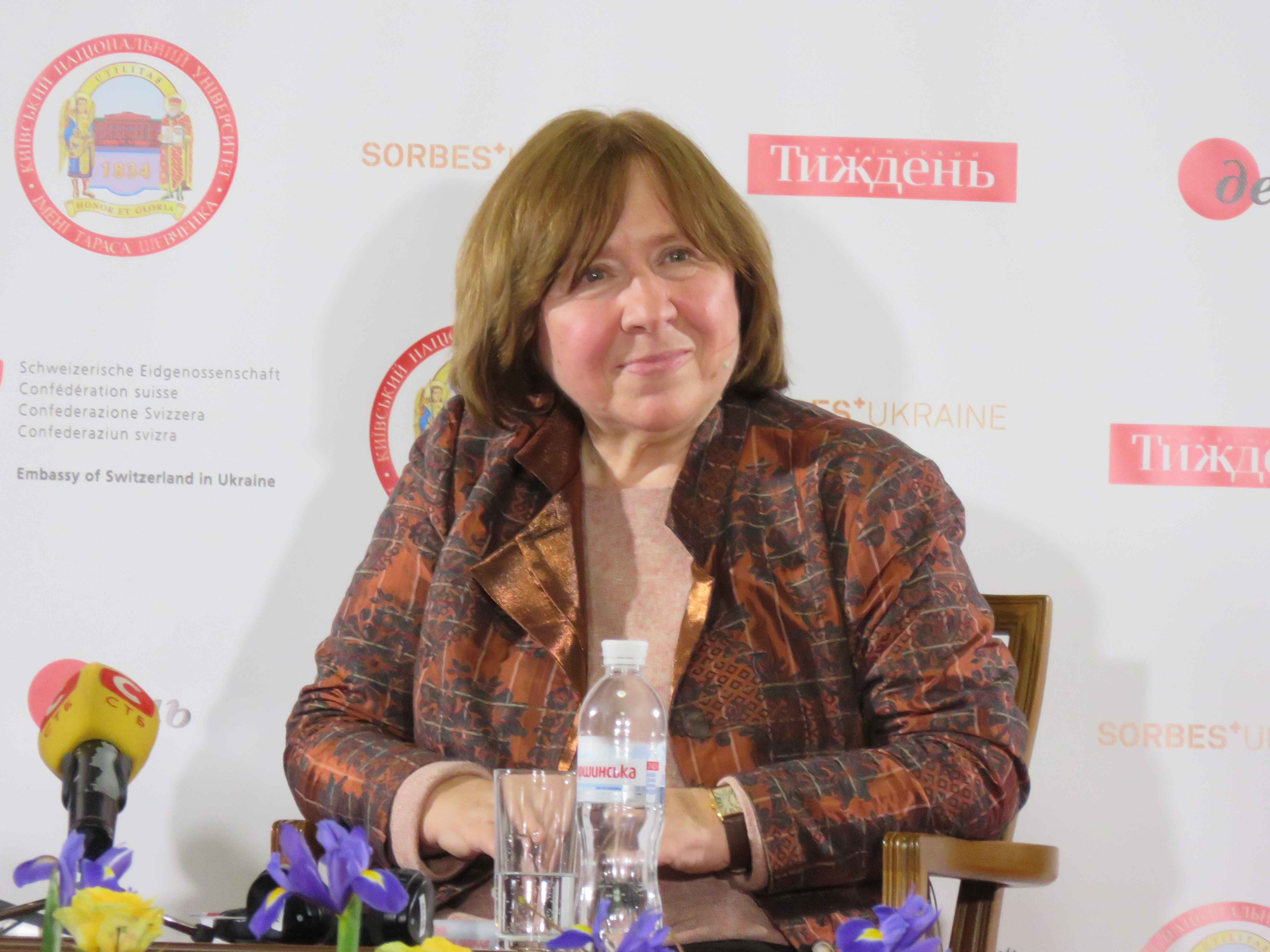 Svetlana Alexievich during lecture "Writing as a Monument to Suffering and Courage" in Taras Shevchenko Kyiv National University, Kyiv, 6 April 2016